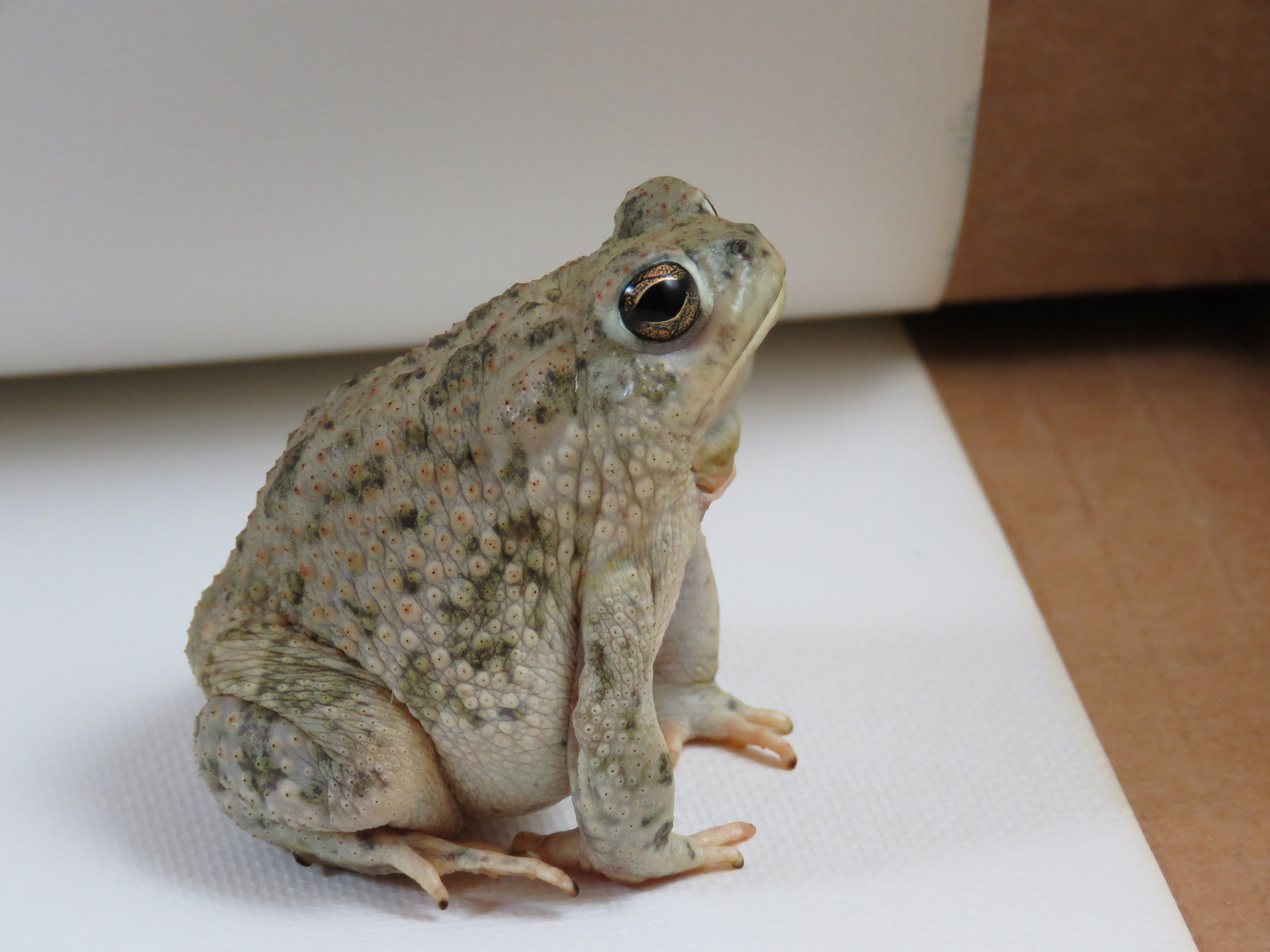 The Texas Toad, Anaxyrus speciosus, caught, photographed, then released in Del Rio, TX.